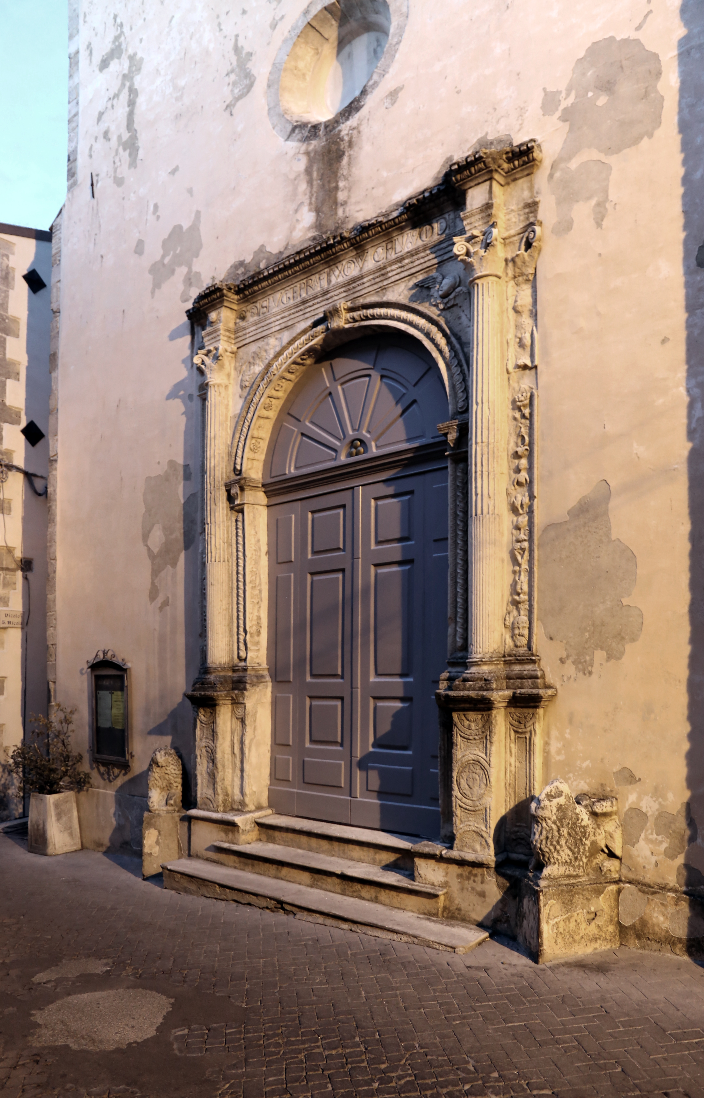 San Nicola (Guardiagrele)